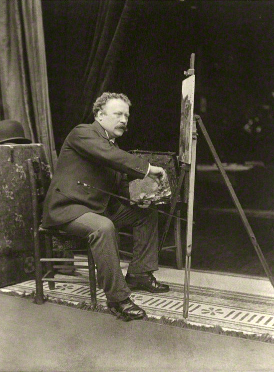 Photograph by Ralph Winwood Robinson (1862–1942). As at 2013, an out of copyright image - Robinson died more than 70 years ago. Taken during the lifetime of Henry Woods (1846–1921)